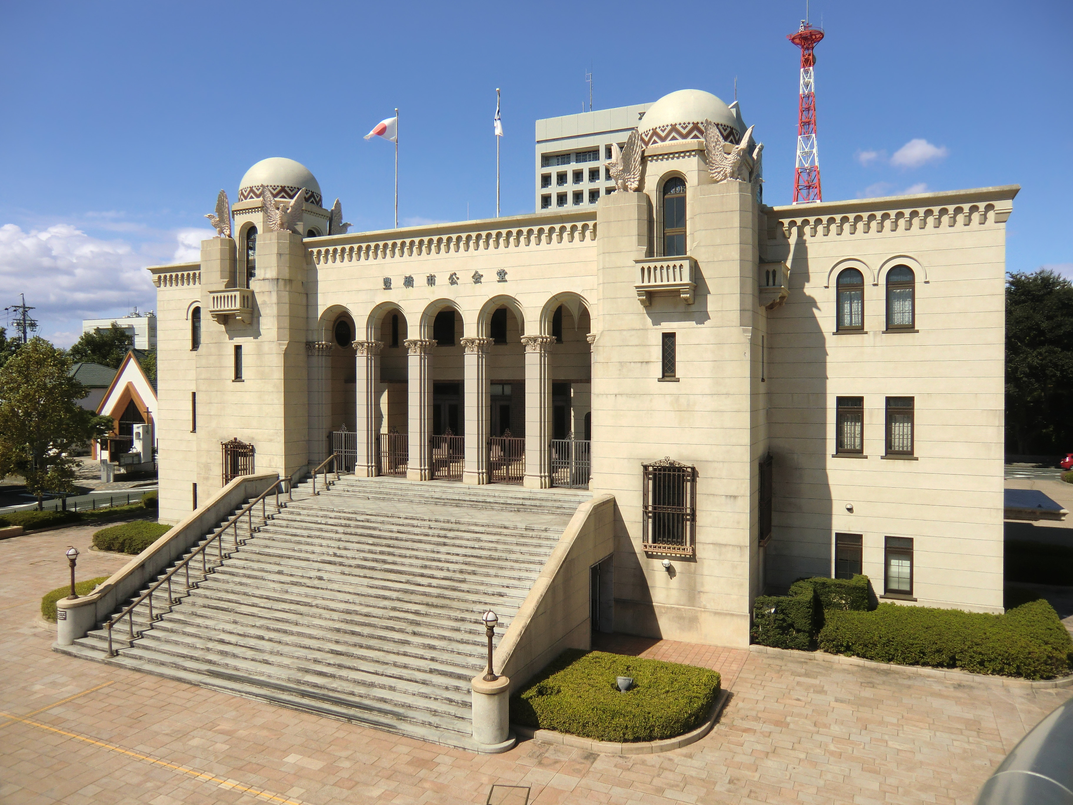 Toyohashi City Public Hall (豊橋市公会堂 Toyohashi-shi Kōkaidō), located at 3-8, Hacchodori, Toyohashi, Aichi, Japan